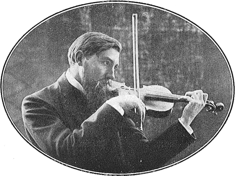 Sven Kjellström (1875-1950), Swedish violinist.